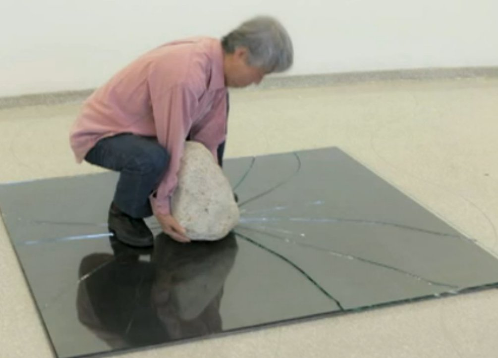 Lee Ufan — setting up his art at the Guggenheim NYC, August 2011.